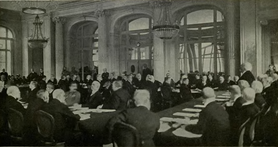 French Prime Minister George Clemenceau addressing the German delegates at Versailles, about to announce the Treaty draft.